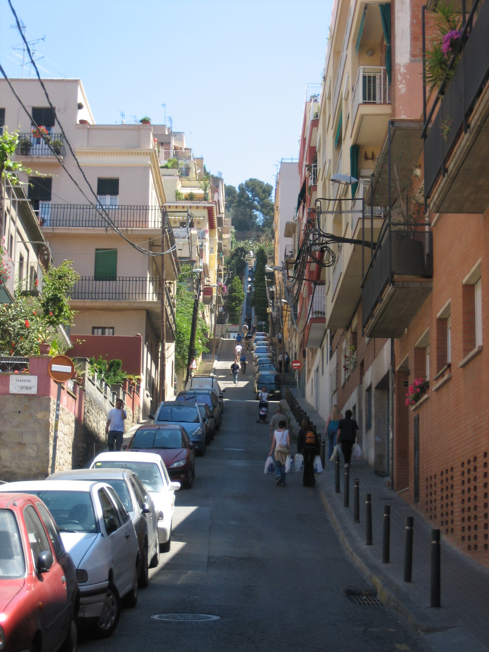 Streets in BarcelonaUphill to Parc Güell